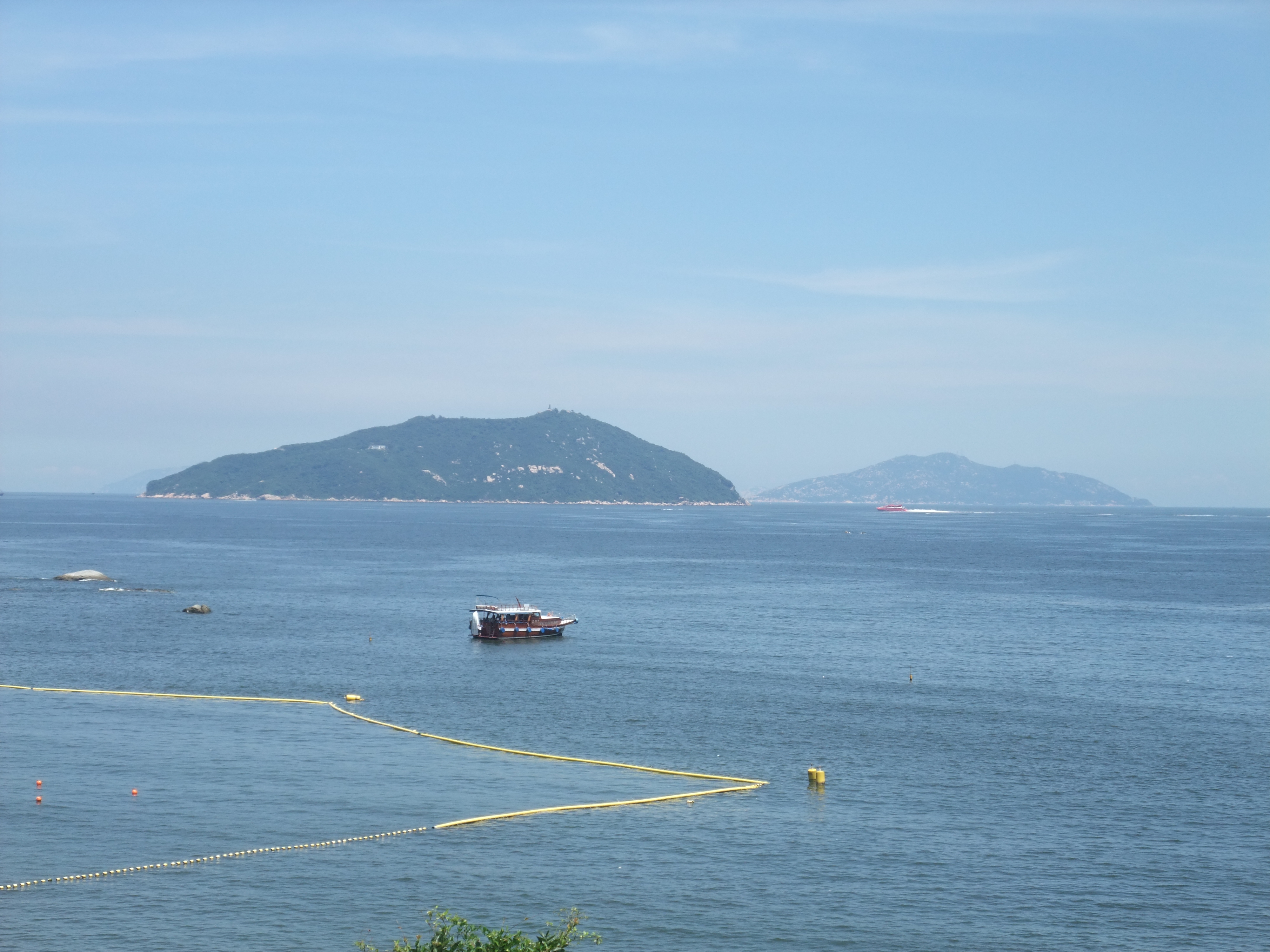 Photo of Shek Kwu Chau and Wai Lingding Island, taken from Cheung Sha, Lantau Island